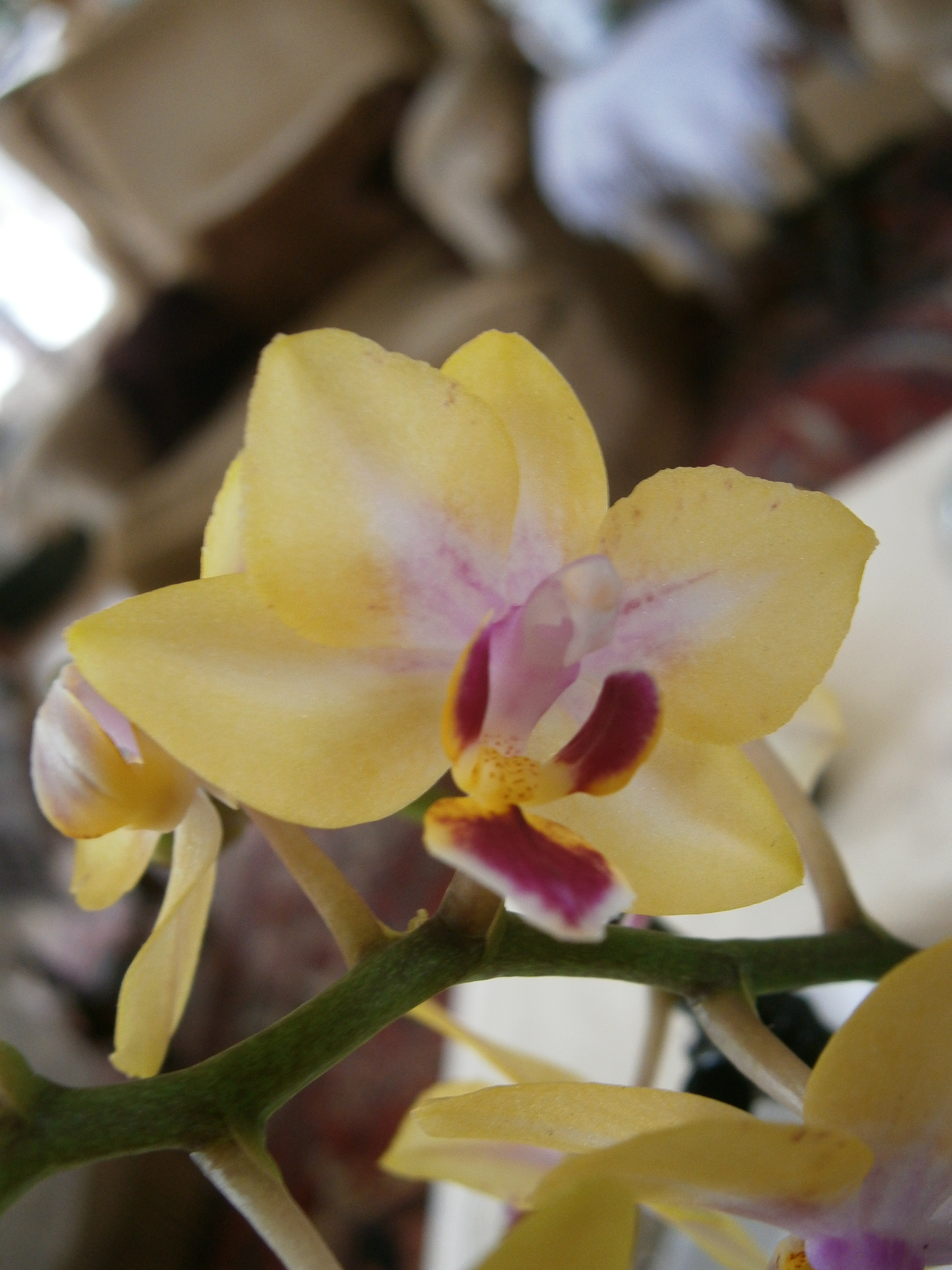 Phalaenopsis 'Little Kolibri'